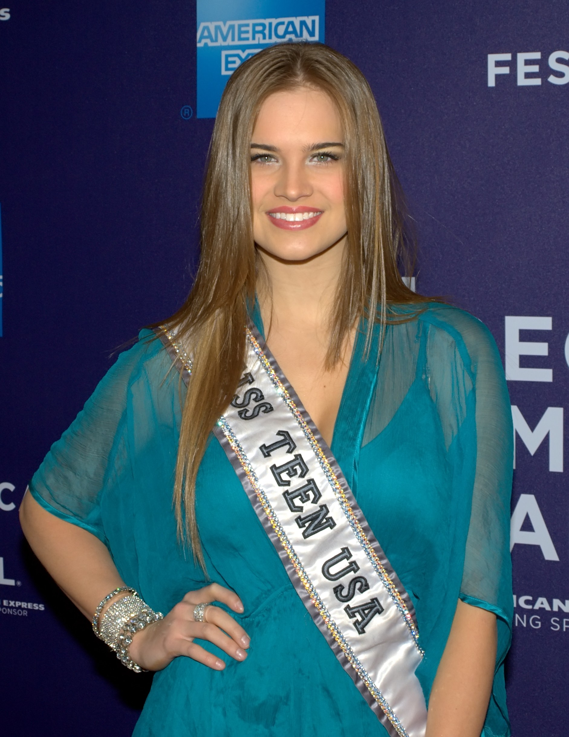 Shanbone post - Juliette Lewis, Alexander Skarsgård, Vince Vaughn and Genevieve Jones at Tribeca (About David Shankbone)